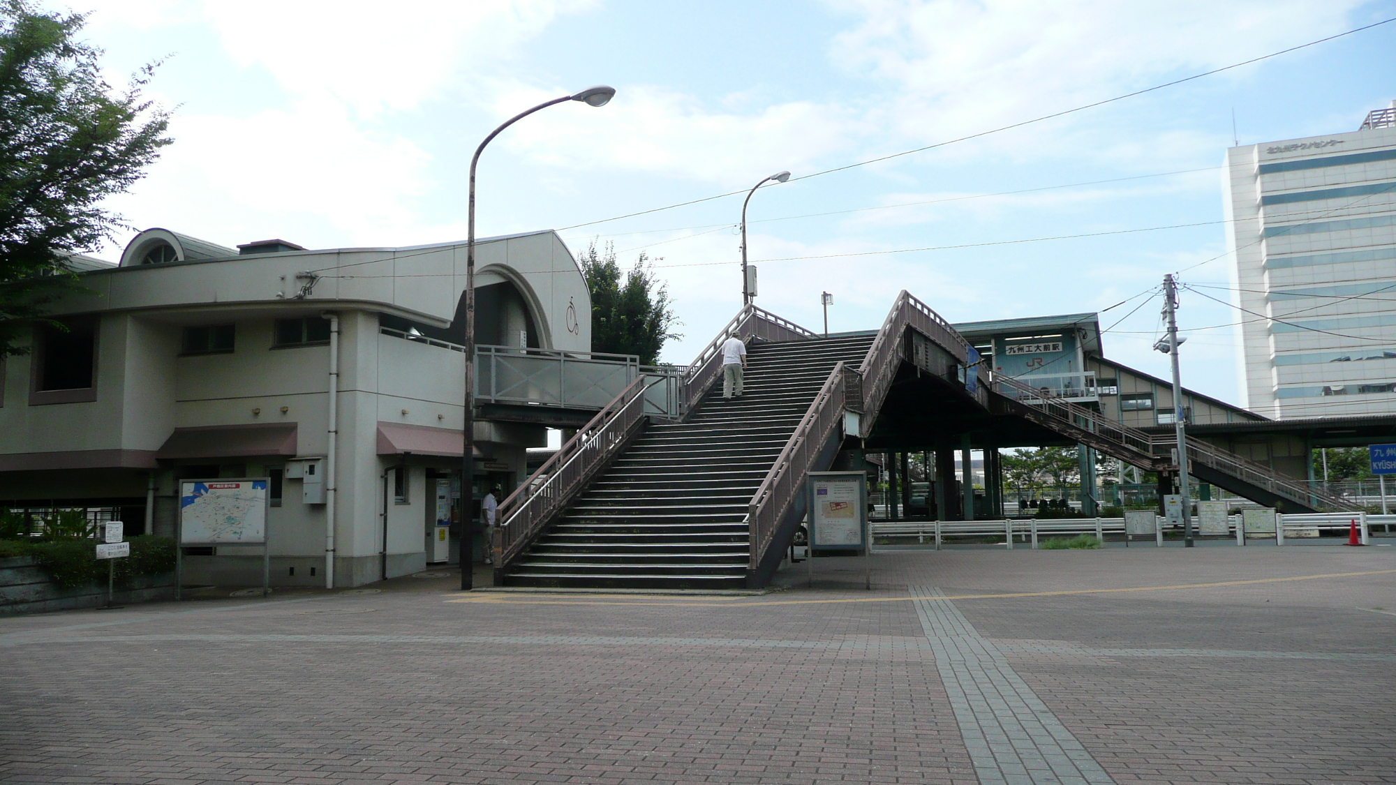 Kyushukodaimae Station, Kagoshima Main Line.